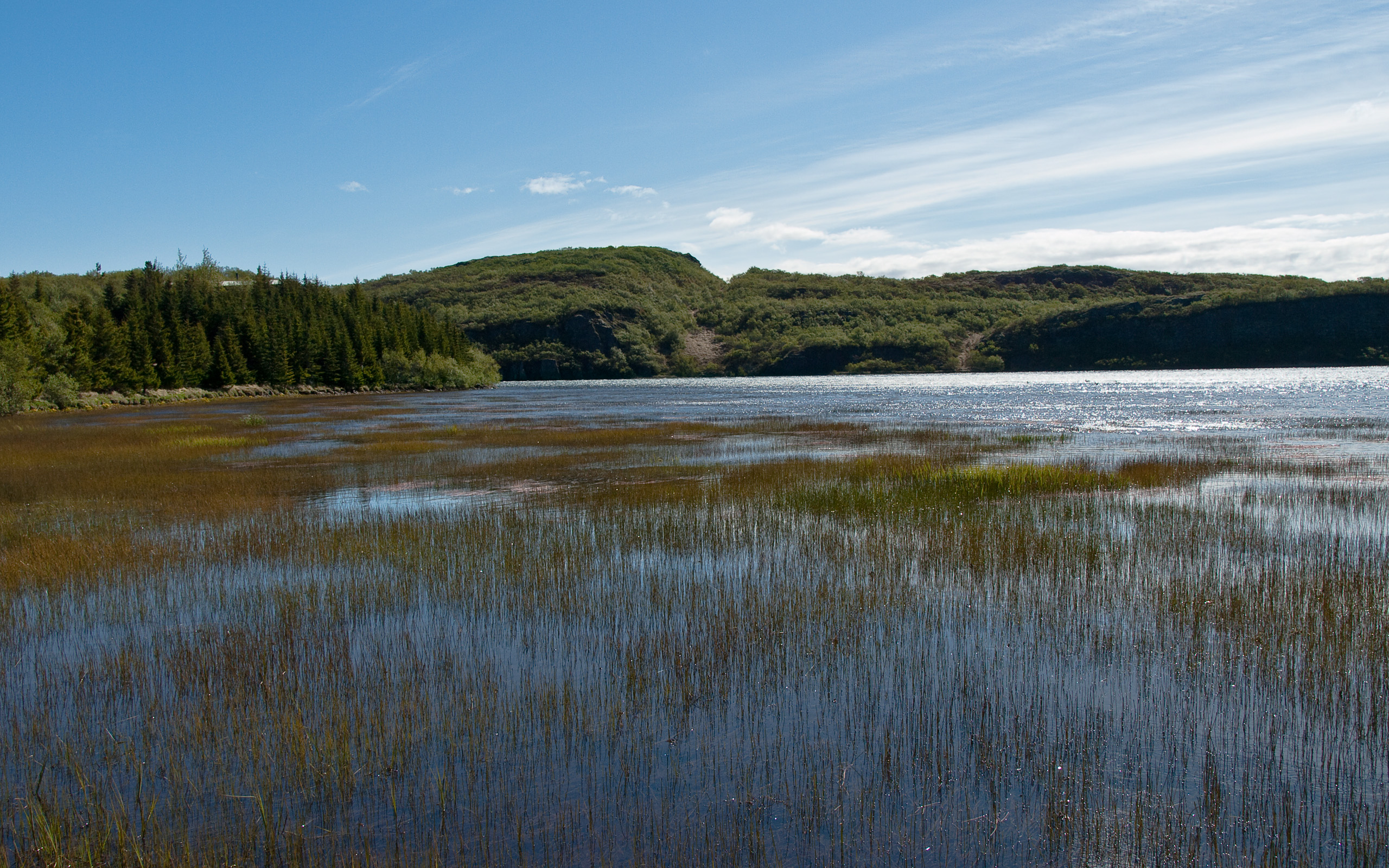 (Iceland)